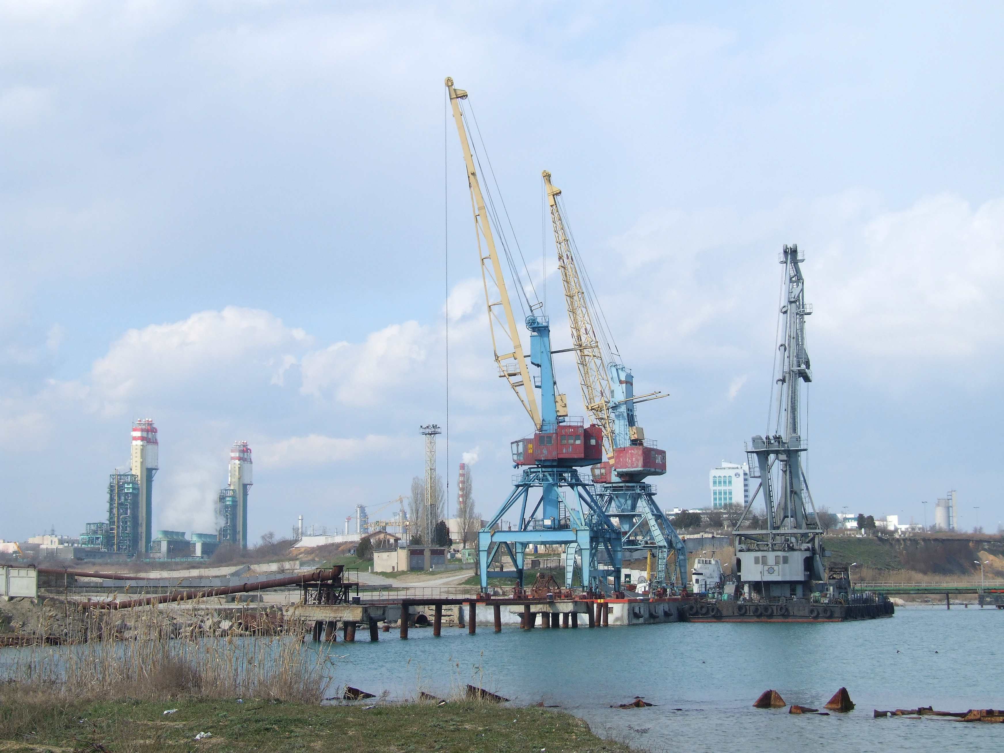 A view of port of Yuzhne, Adzhalykskyi liman, Odessa Oblast, Ukraine